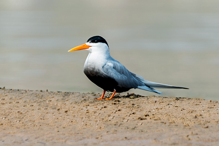 Black-bellied Tern Sterna acuticauda, taken at National Chambal Sanctuary in India, Morena, Madhya Pradesh